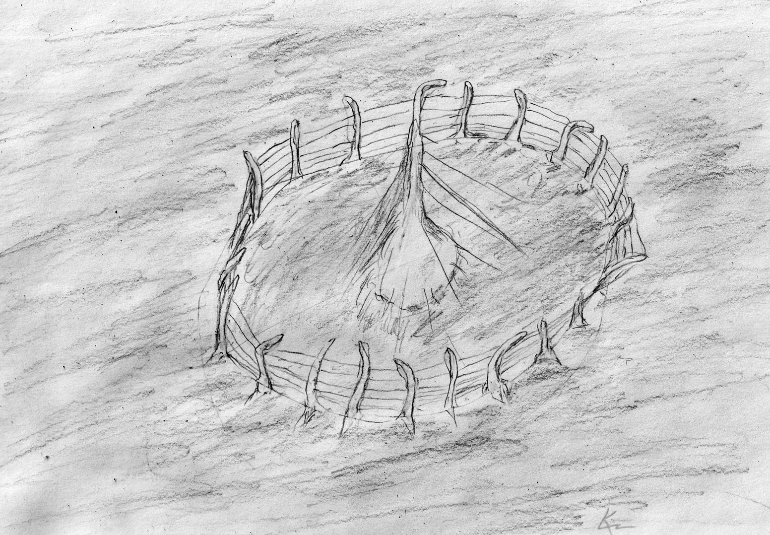 Original sketch of a silkhenge structure